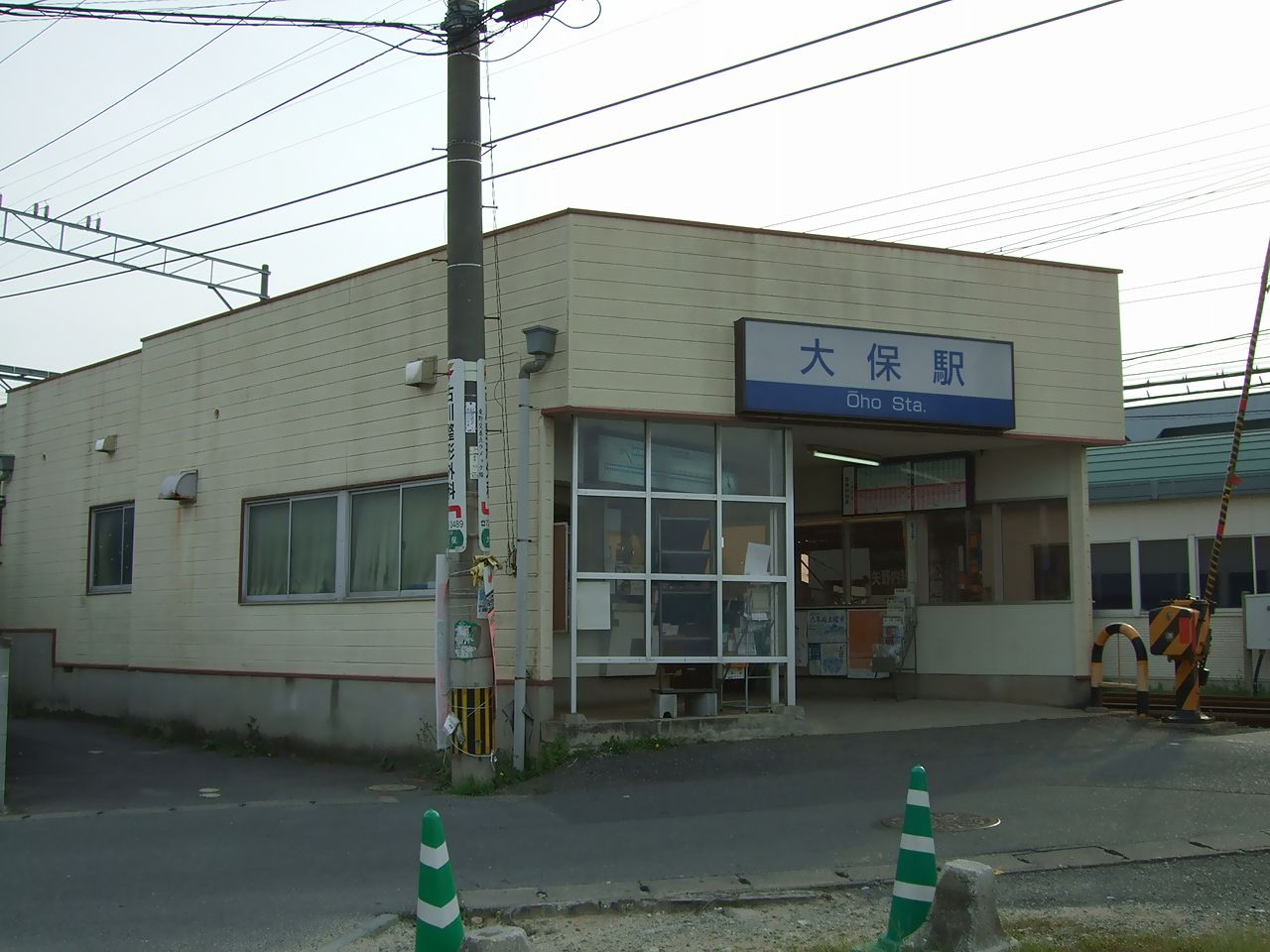 Oho Station, Nishitetsu Tenjin Omuta Line.